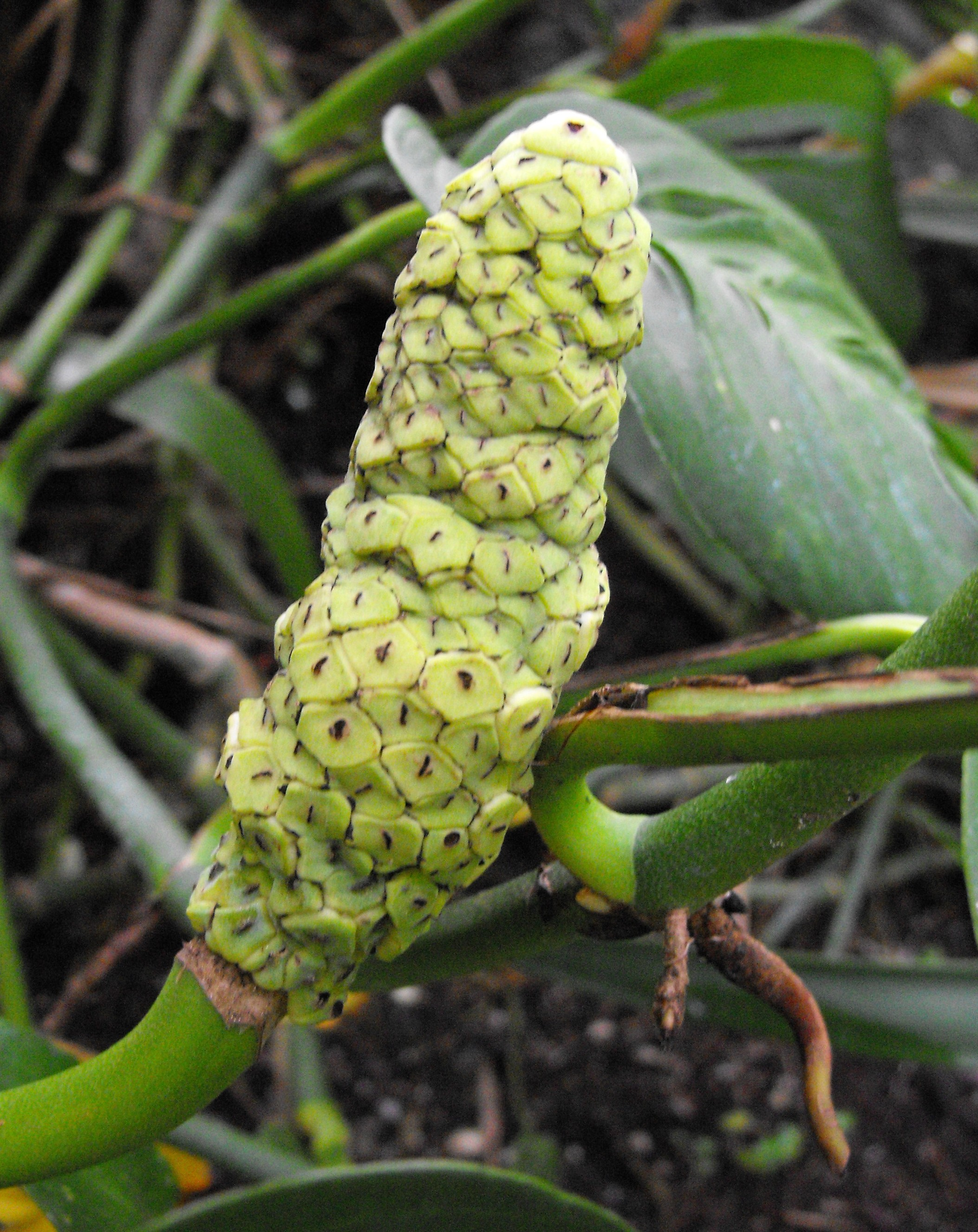 Fruiting Monstera obliqua in the Botanical Building at Balboa Park, San Diego, California, USA.